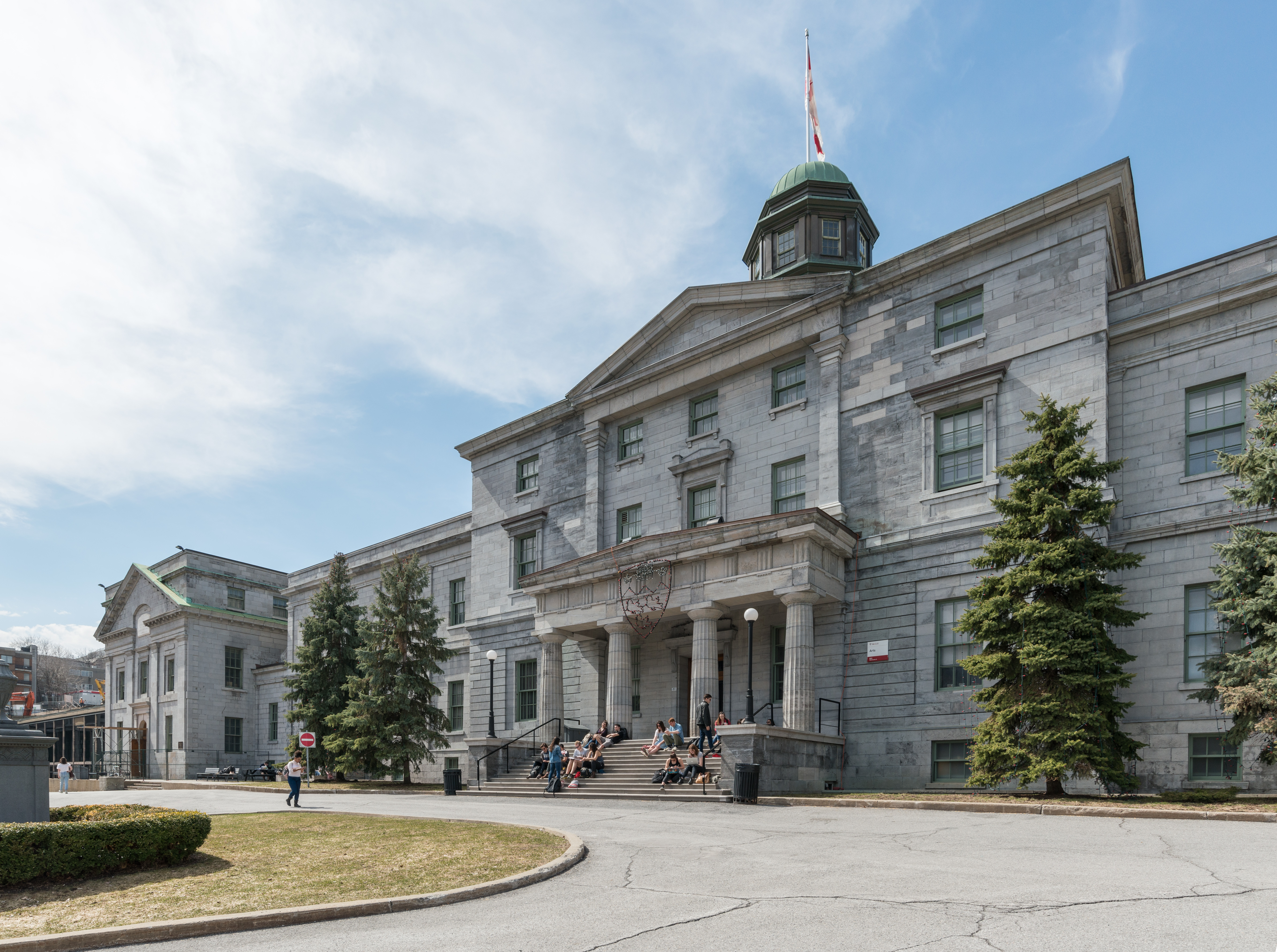 An east view of the Arts Building at McGill University, Montréal